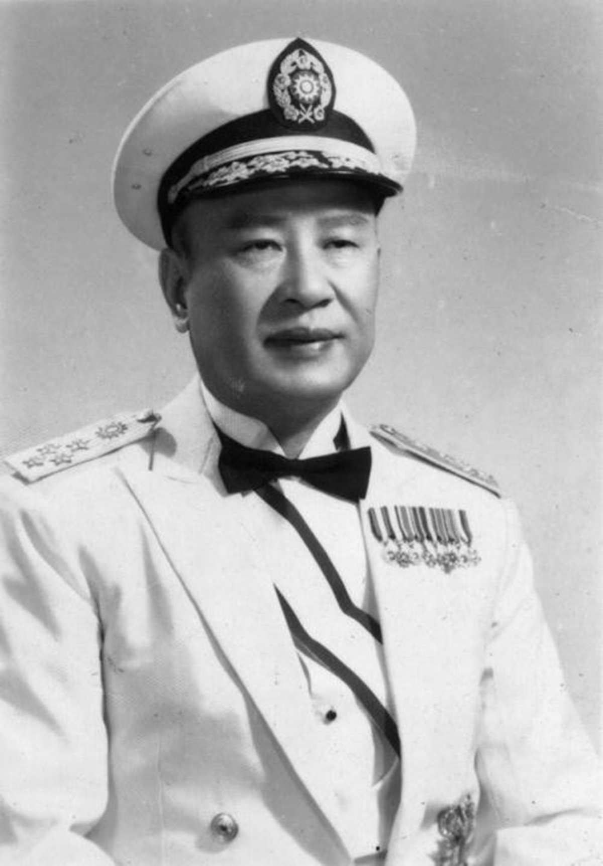 Photo of Bái Chóngxǐ, Source:Taiwan Museum of national defence